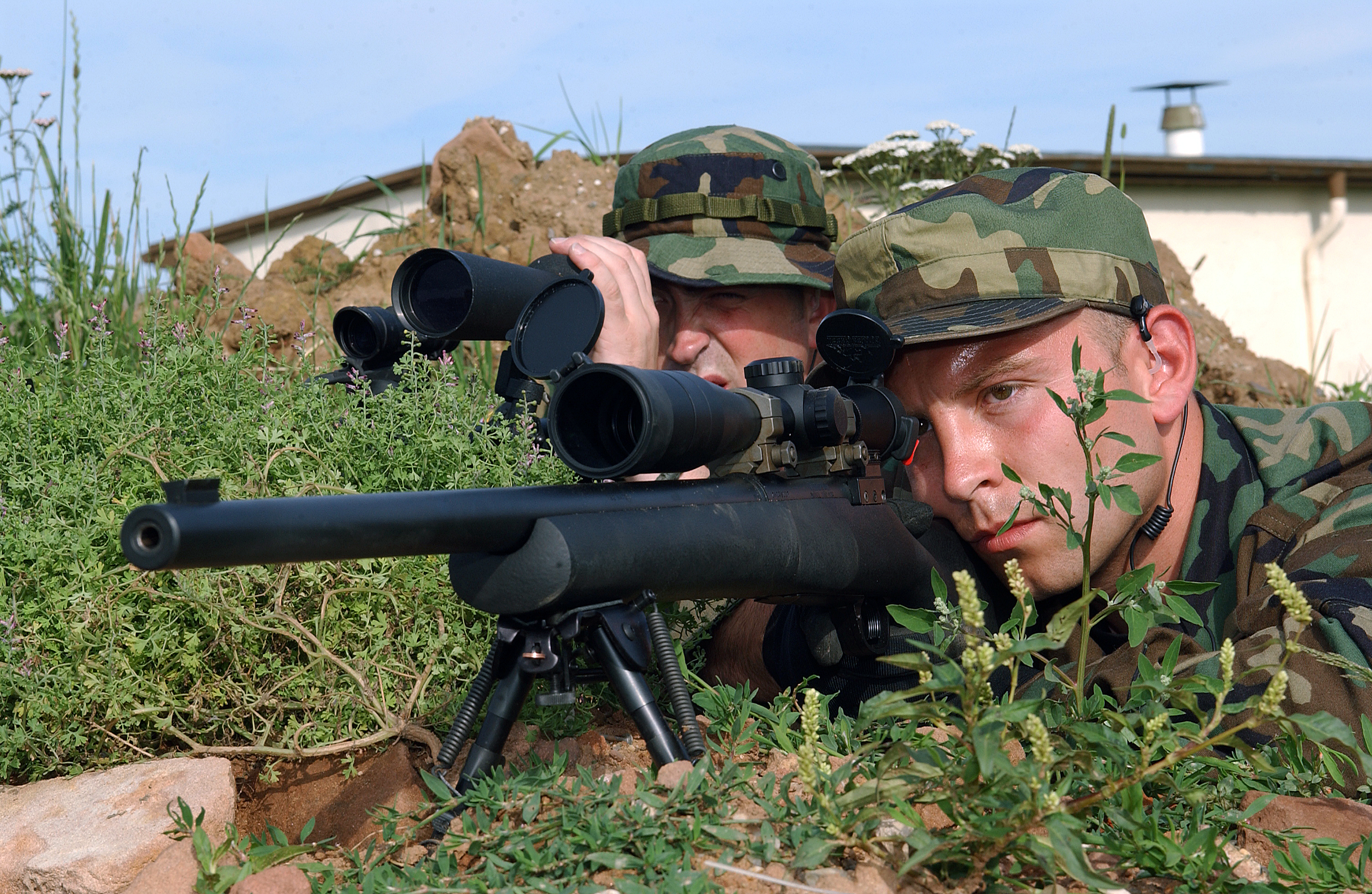 SPANGDAHLEM AIR BASE, Germany (AFPN) -- Staff Sgts. Alexander Erb (foreground) and Brian Little practice their sniper skills during a training scenario here. Both sergeants are members of the 52nd Security Forces Squadron's emergency services team.